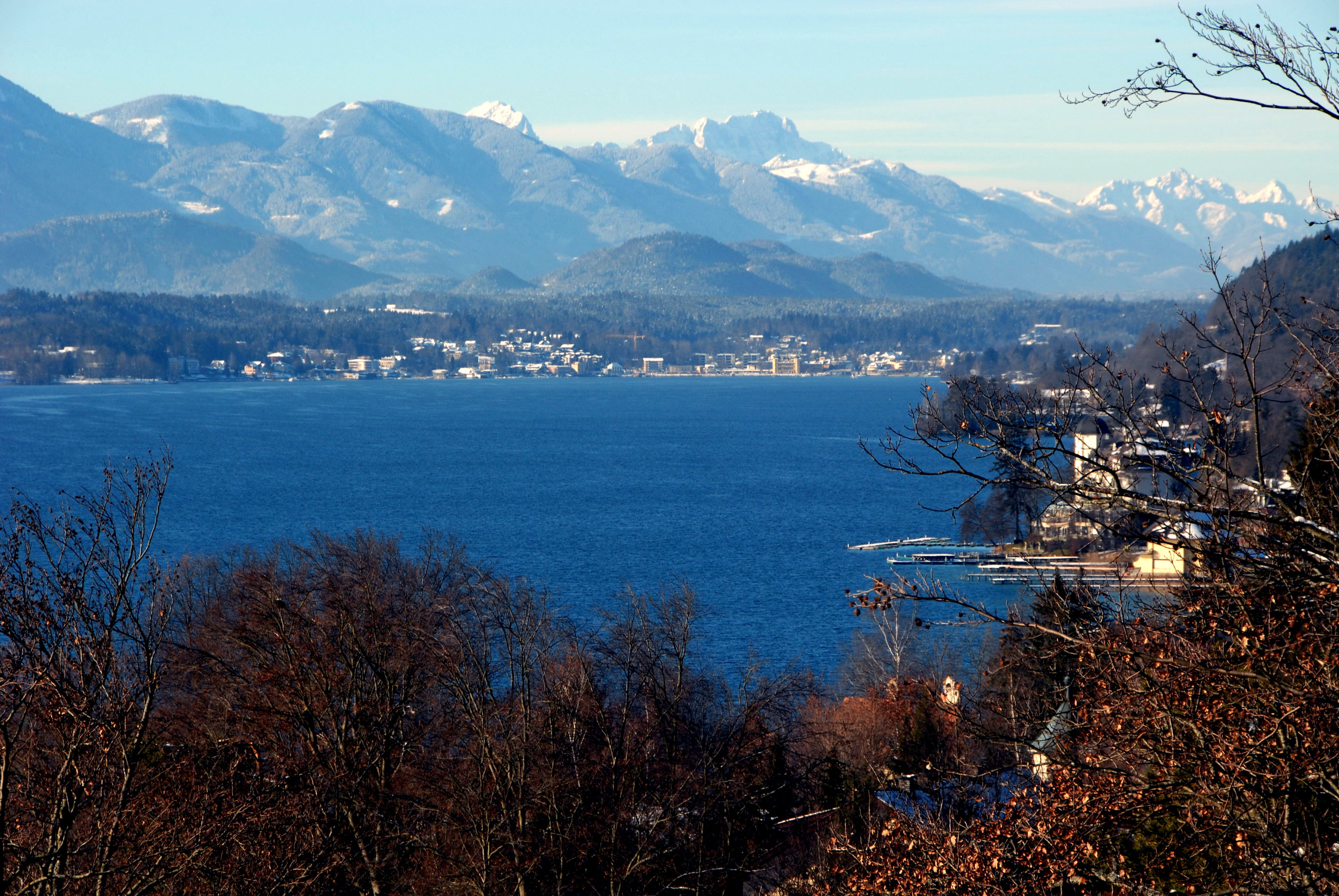 View from Low Gloriette of Wörther See and Velden, municipality Pörtschach am Wörther See, district Klagenfurt Land, Carinthia, Austria, EU